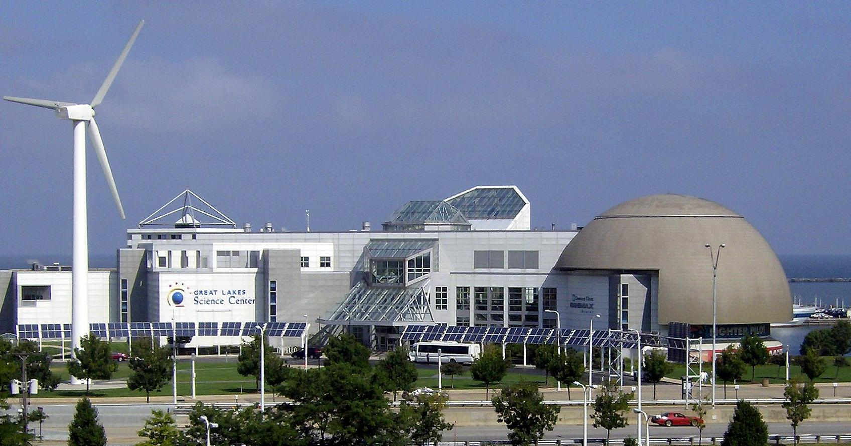 Great Lakes Science Center is sandwiched between Browns staduim and the Rock and Roll Hall of Fame